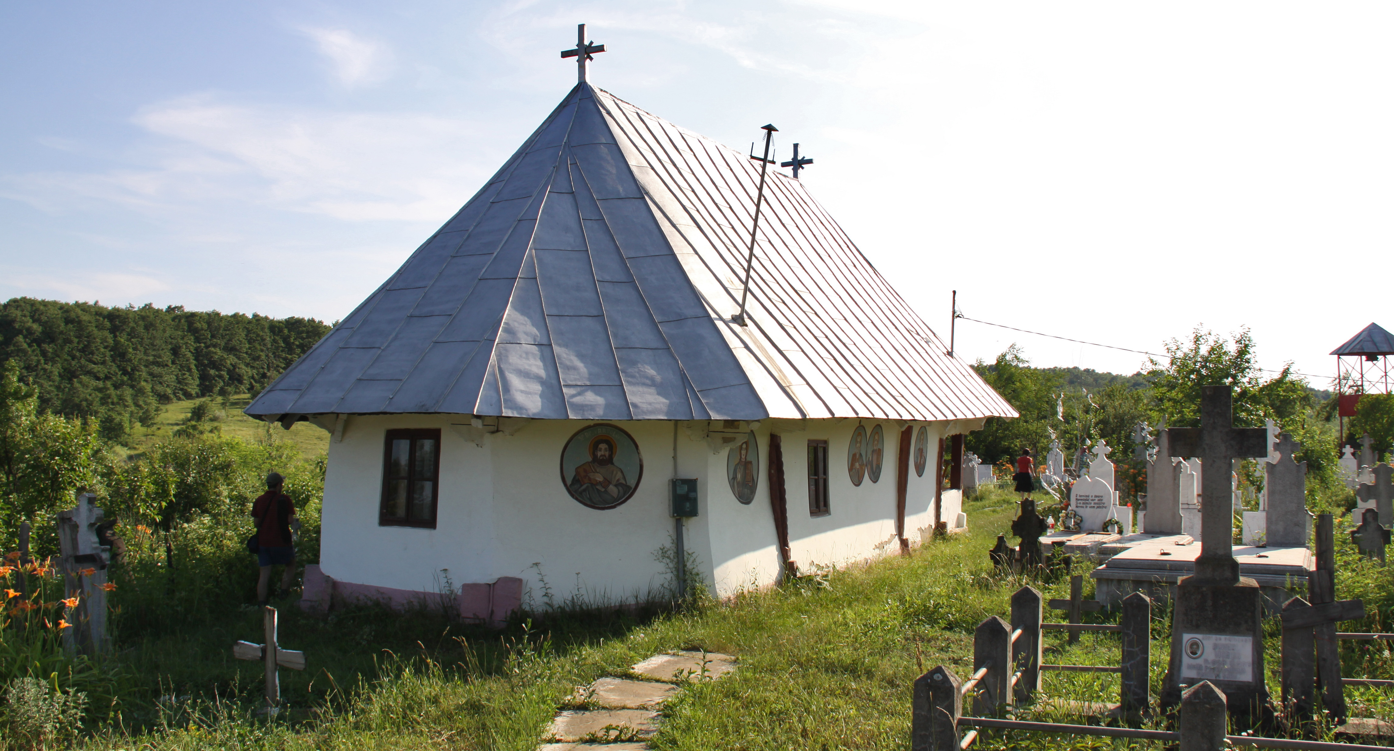 Cerătu de Copăcioasa, Gorj county, Romania: the wooden church, North-East side.